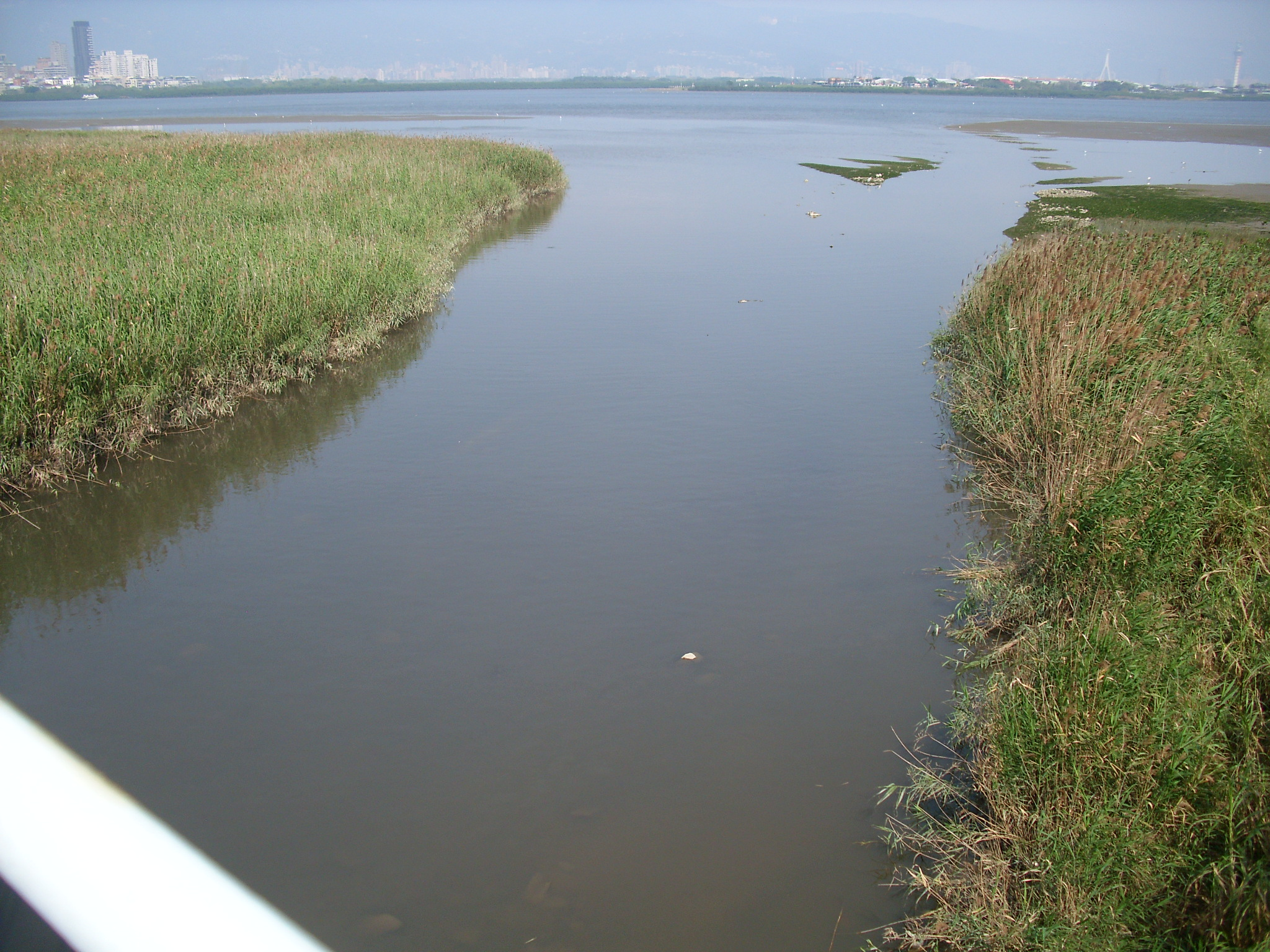 Guanyinkeng River